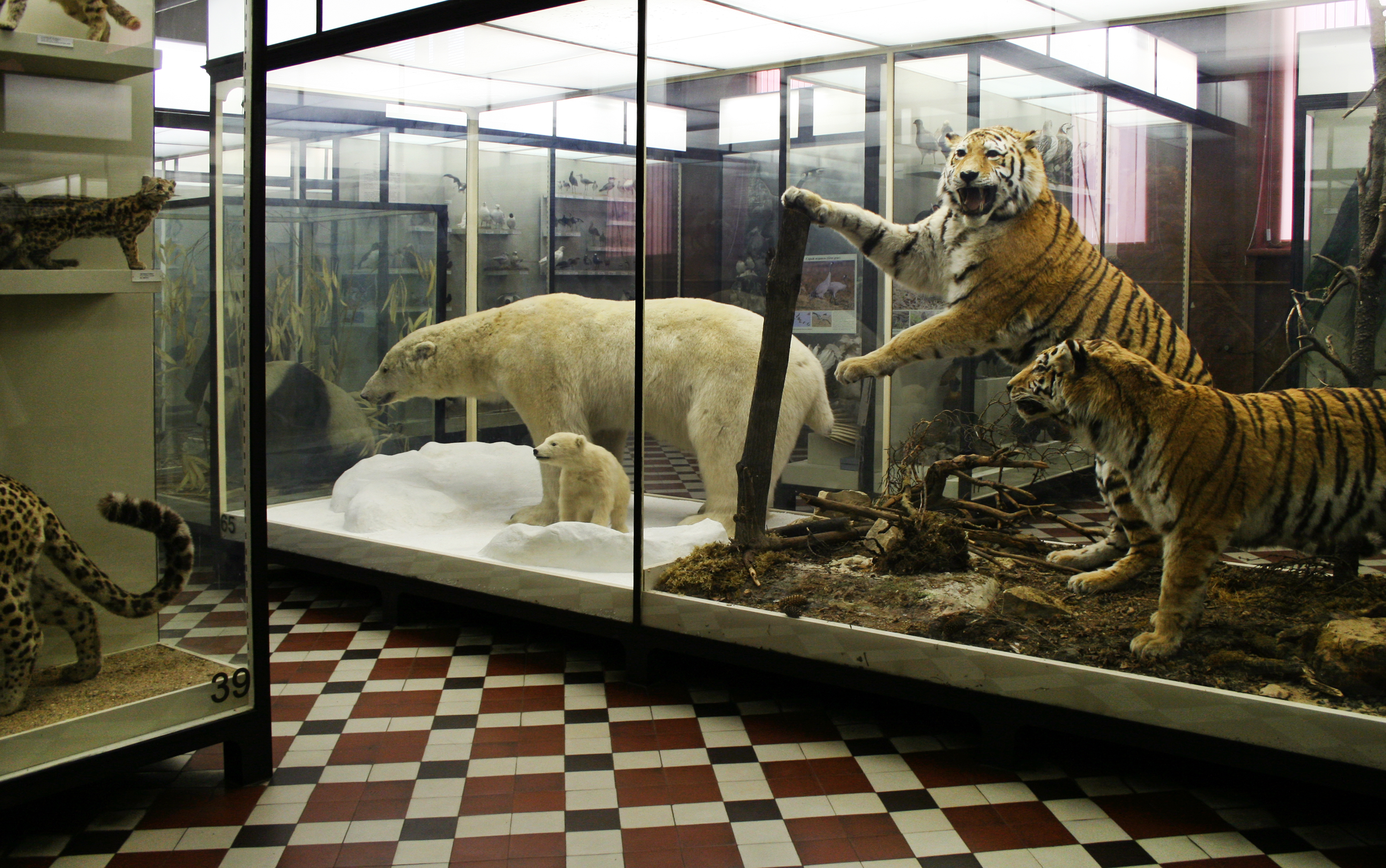 The exposition of the Scientific-research Zoological Museum of Moscow state University named after M. V. Lomonosov. Author of the photo: A. N. Mironov